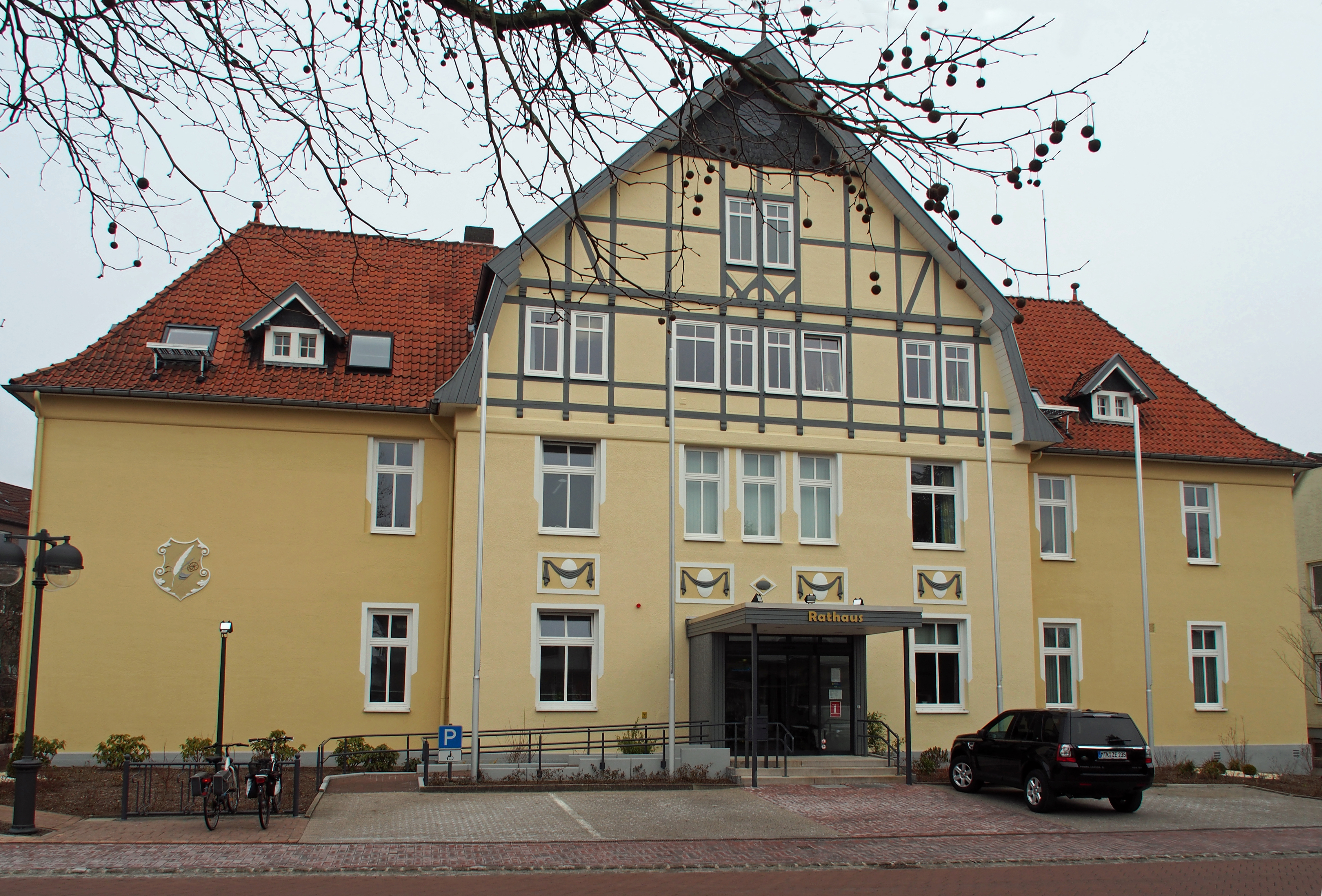 Bergen town hall, Lower Saxony, Germany.